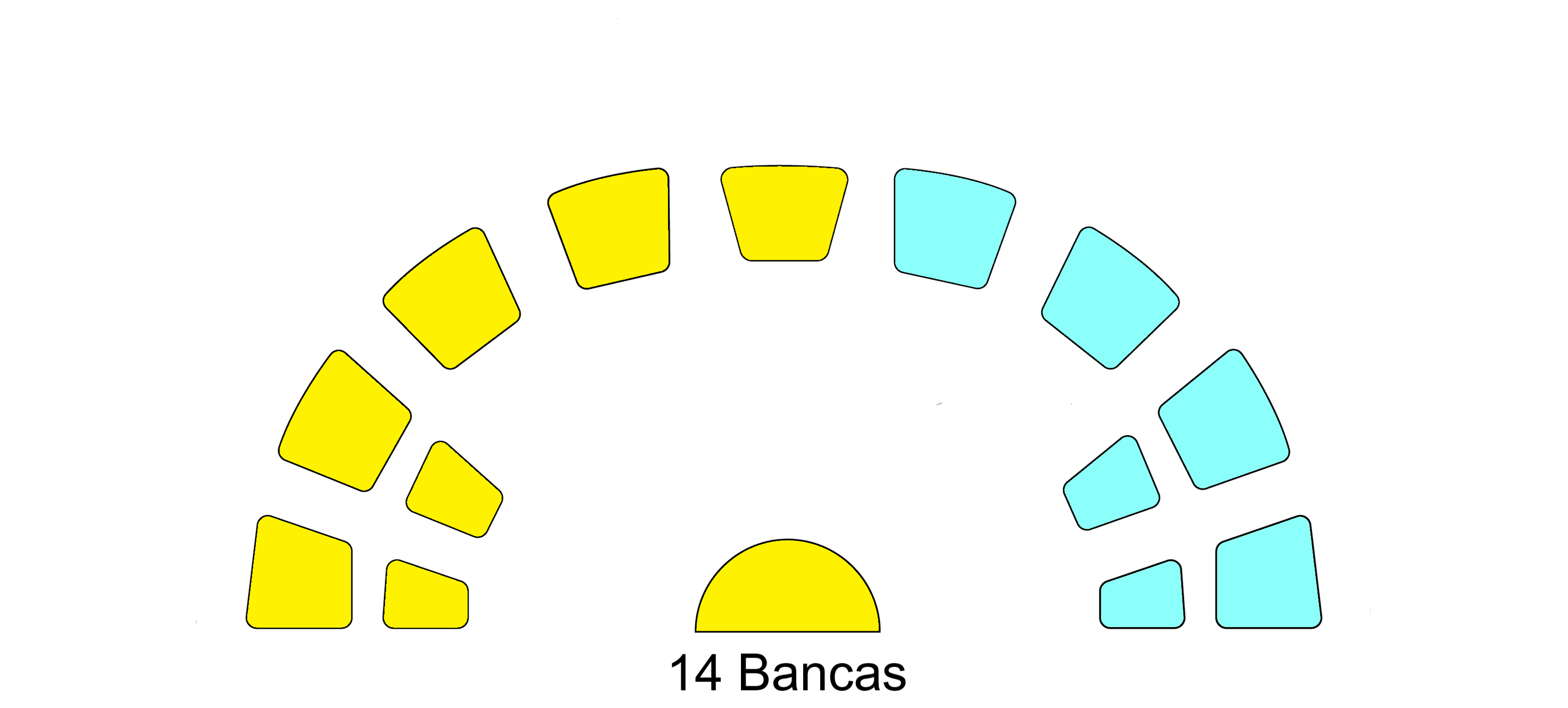 Deliberative Council of the municipality of Brandsen